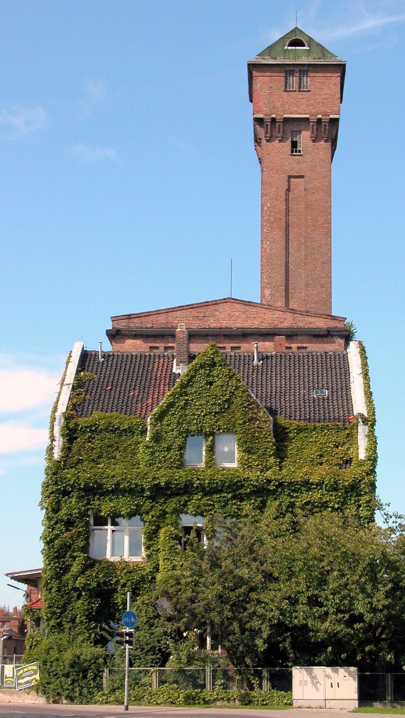 Ansicht von Südenosten. Braunschweig, Germany: Rye Mill Lehndorf as seen from the southeast.